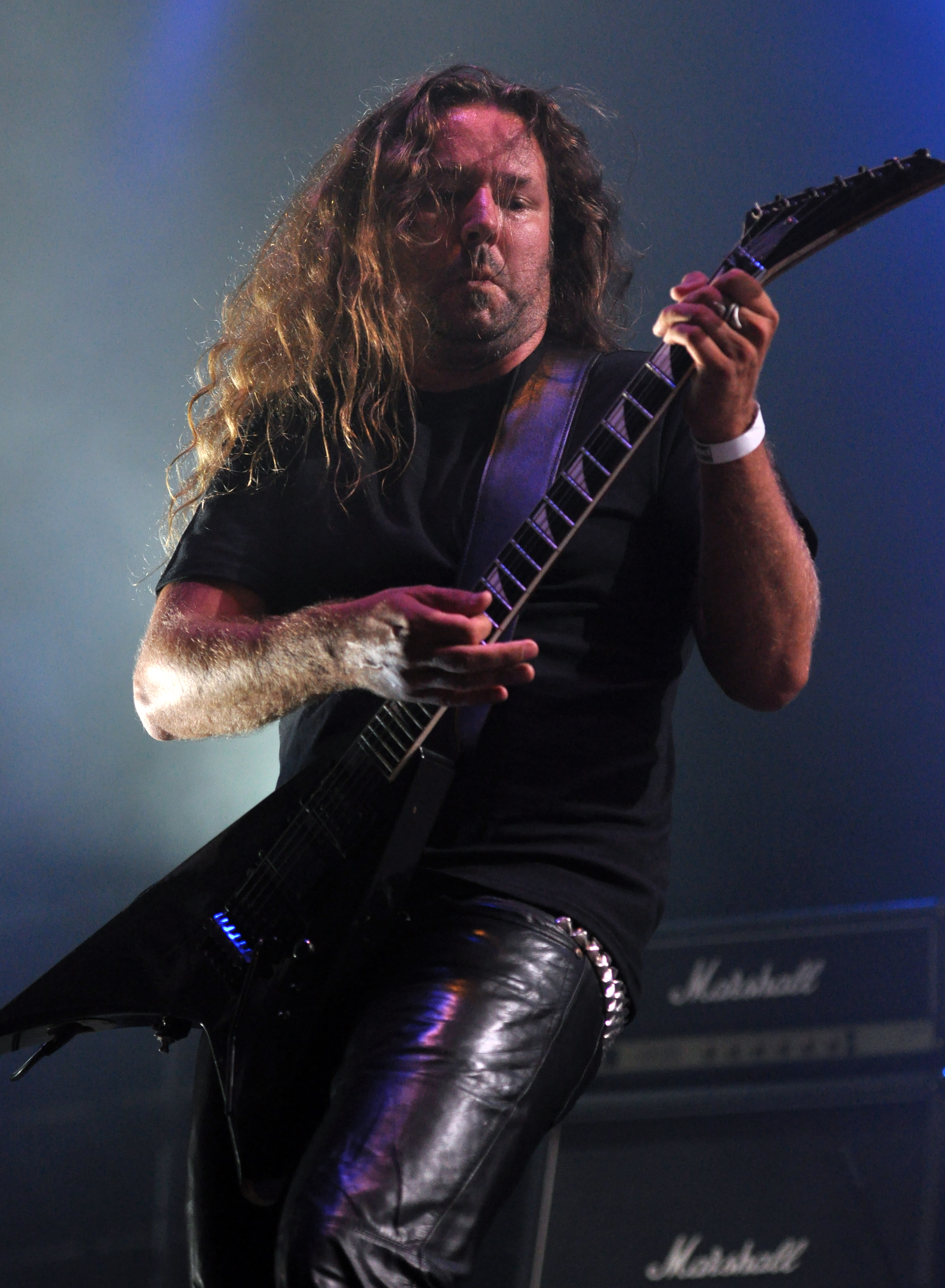 Unleashed at Party.San Metal Open Air 2013